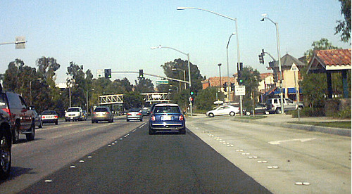 The intersection of Valencia Boulevard and the entrance to the Valencia Town Center in Valencia, California (part of Santa Clarita, California) as photographed on July 2, 2004. The perspective is from Valencia, just west of the intersection, facing east towards the intersection. There is an elevated paseo (a dedicated pedestrian walkway unique to Valencia) in the distance. Photographed and uploaded by user Coolcaesar